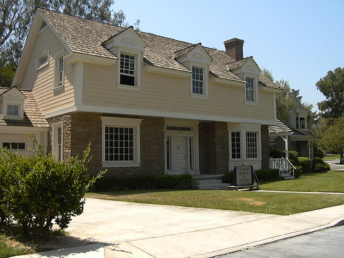 Universal set